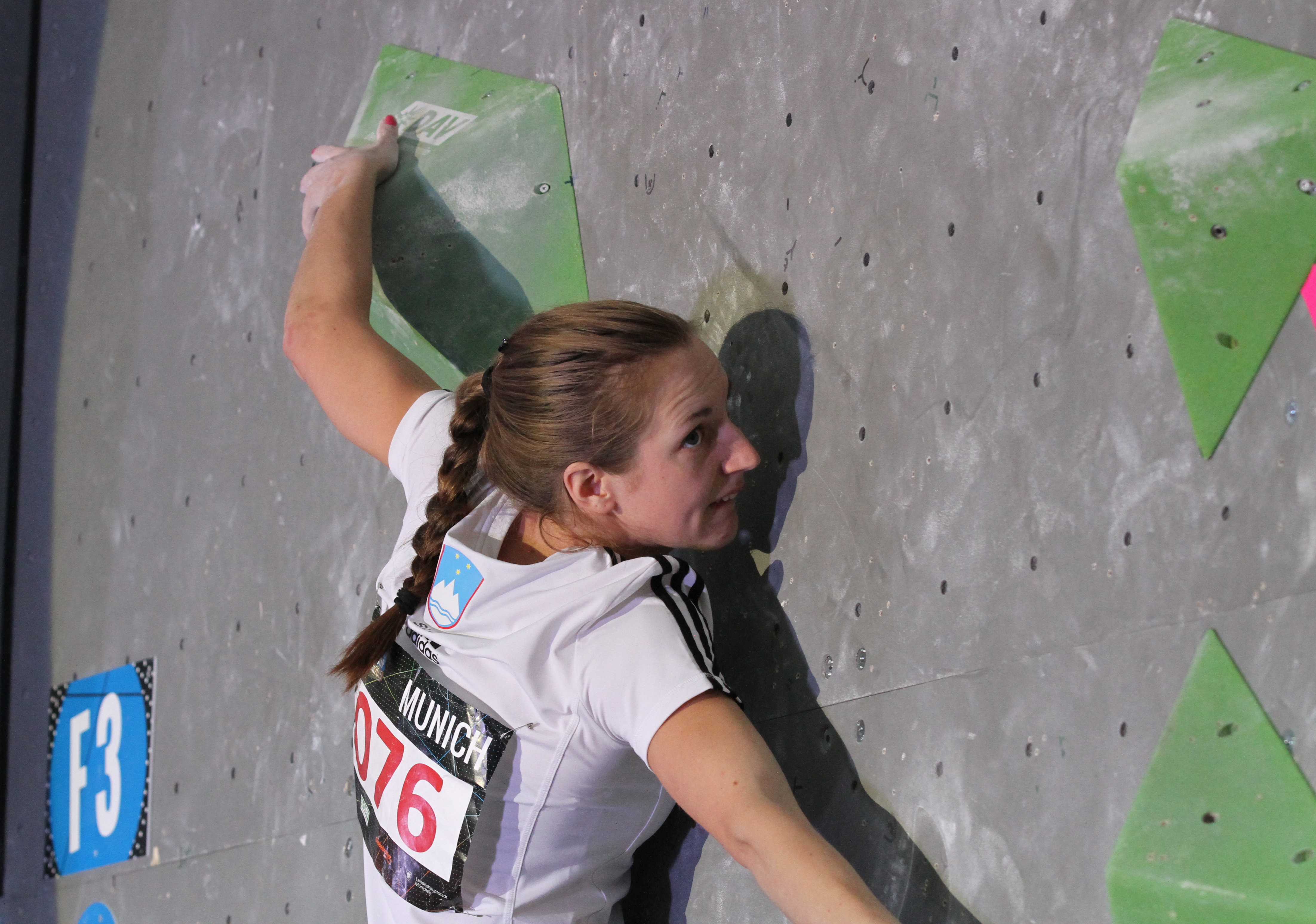 IFSC Boulder Worldcup, Munich 2015. Katja Kadic (SLO)